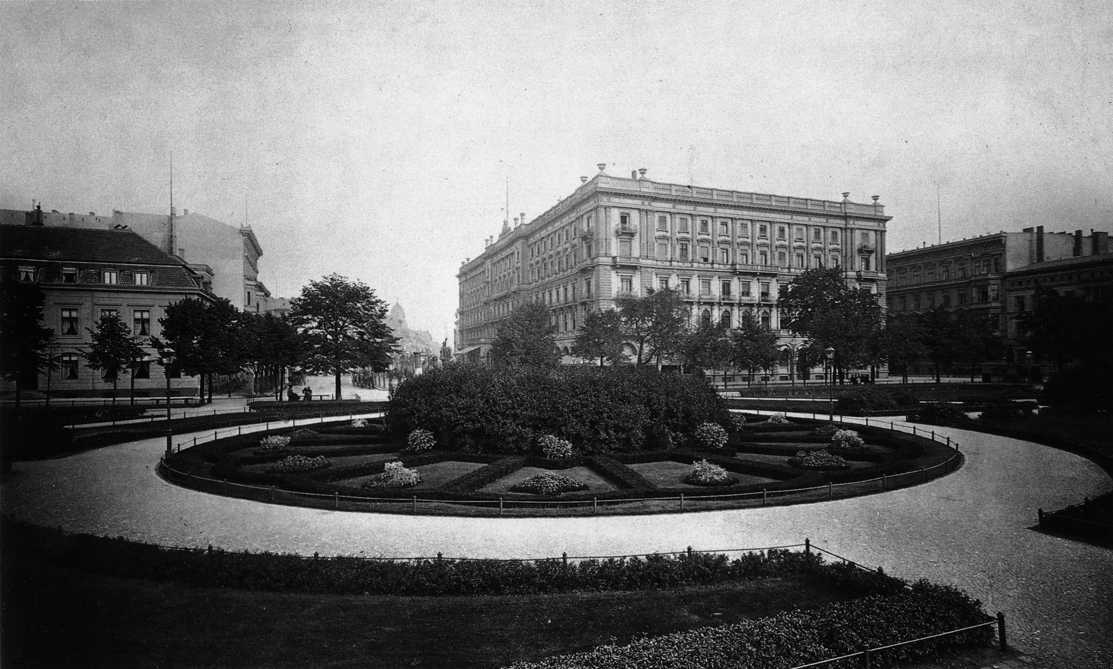 The former Wilhelmplatz (later Thälmannplatz), now the crossing of Wilhelmstraße and Mohrenstraße. On the other side of the square is the hotel Kaiserhof, which was destroyed in 1943.